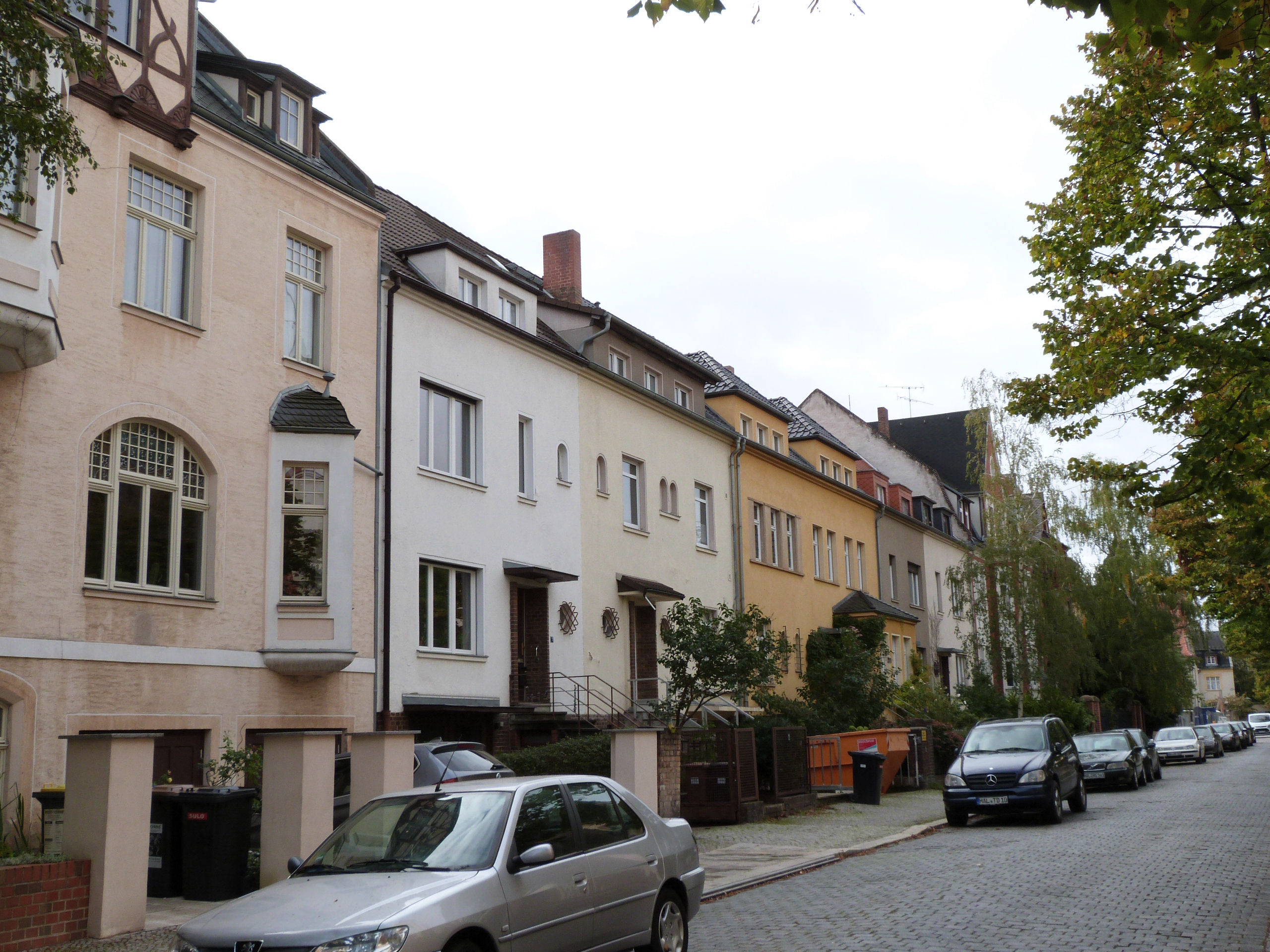 Street Ernestusstrasse in Halle (Saale)